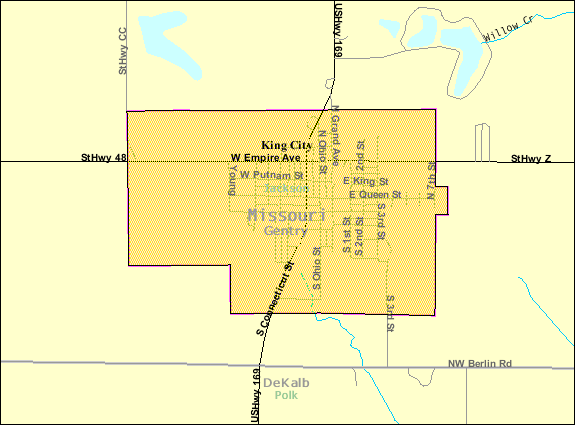 U.S. Census 2000 reference map for King City